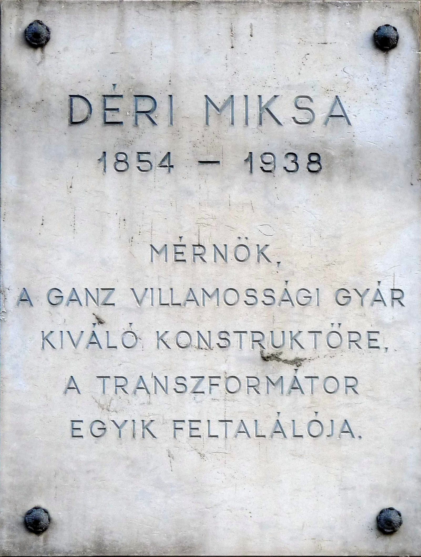 Commemorative plaque to Mr. Miksa Déri (1854–1938) at the bigining of the street bearing his name. (Budapest, District VIII, Déri Miksa Street Nr 1).